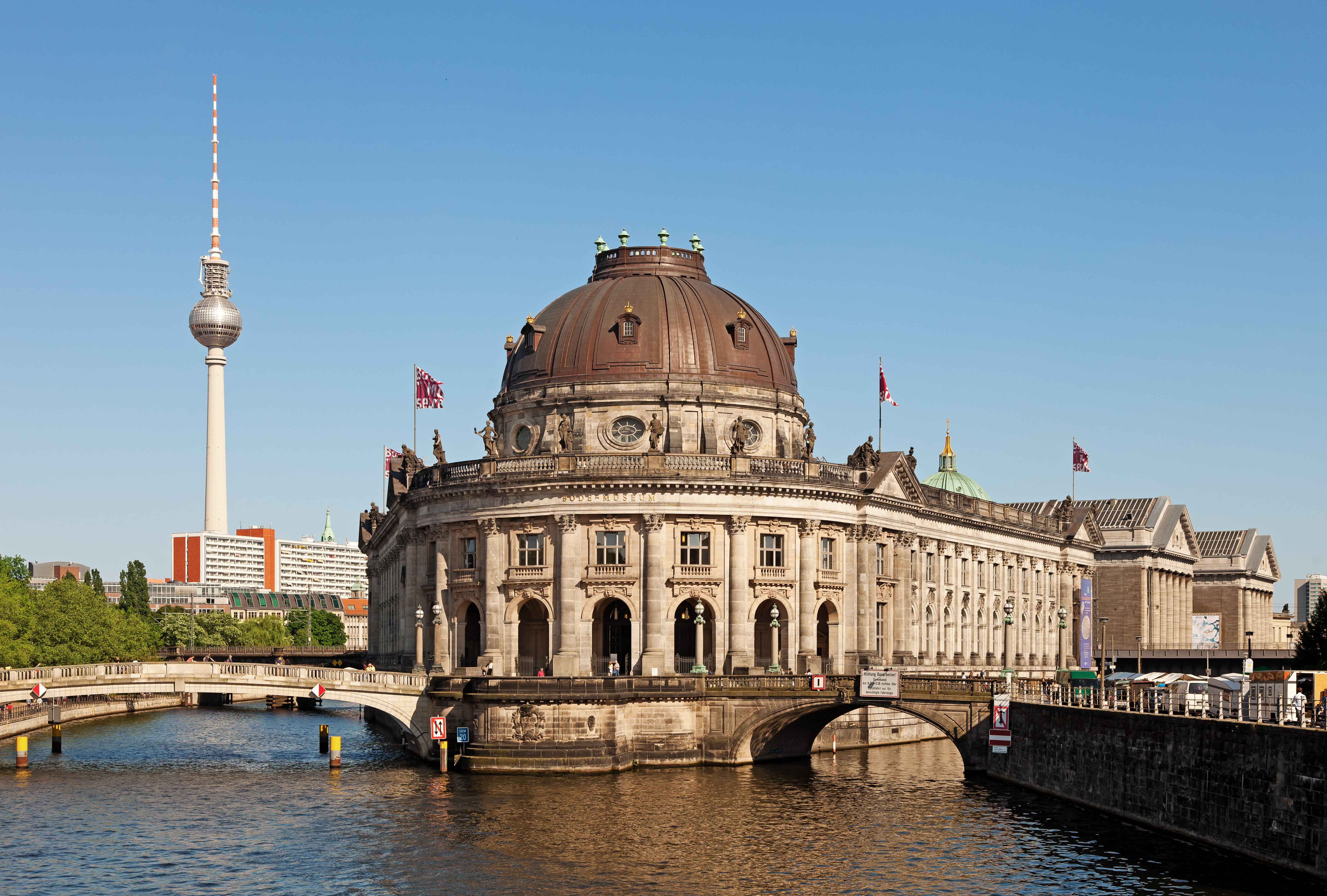 Berlin Museum Island with Fernsehturm